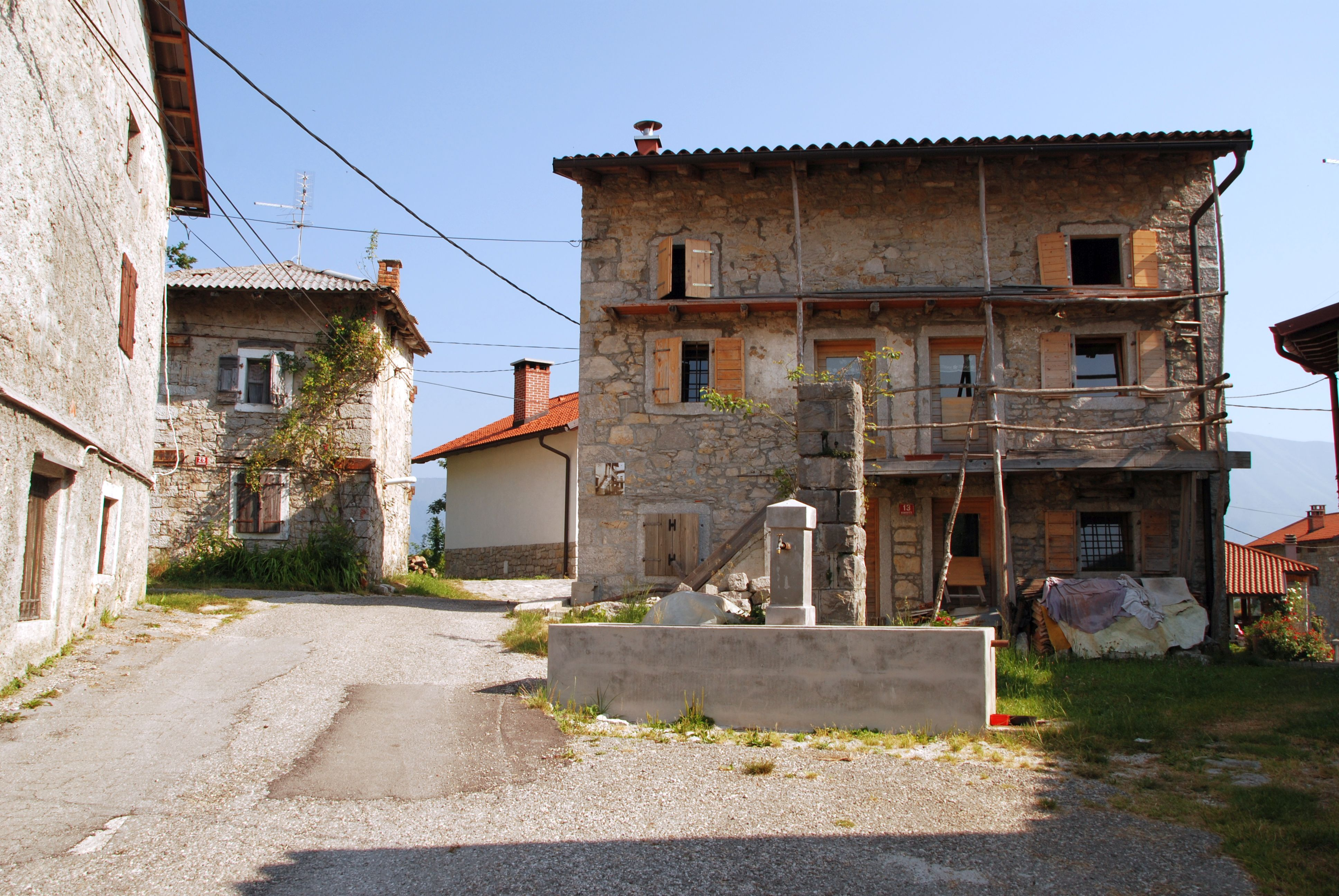 The centre of the village of Robidišče (Municipality of Kobarid), northwestern Slovenia.